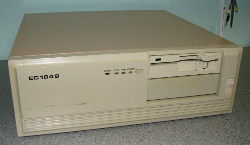 Soviet made personal computer EC-1849 with Intel 80286 compatible CPU